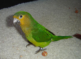 A pet St. Thomas Conure (Aratinga pertinax). Also called Brown-throated Parakeet